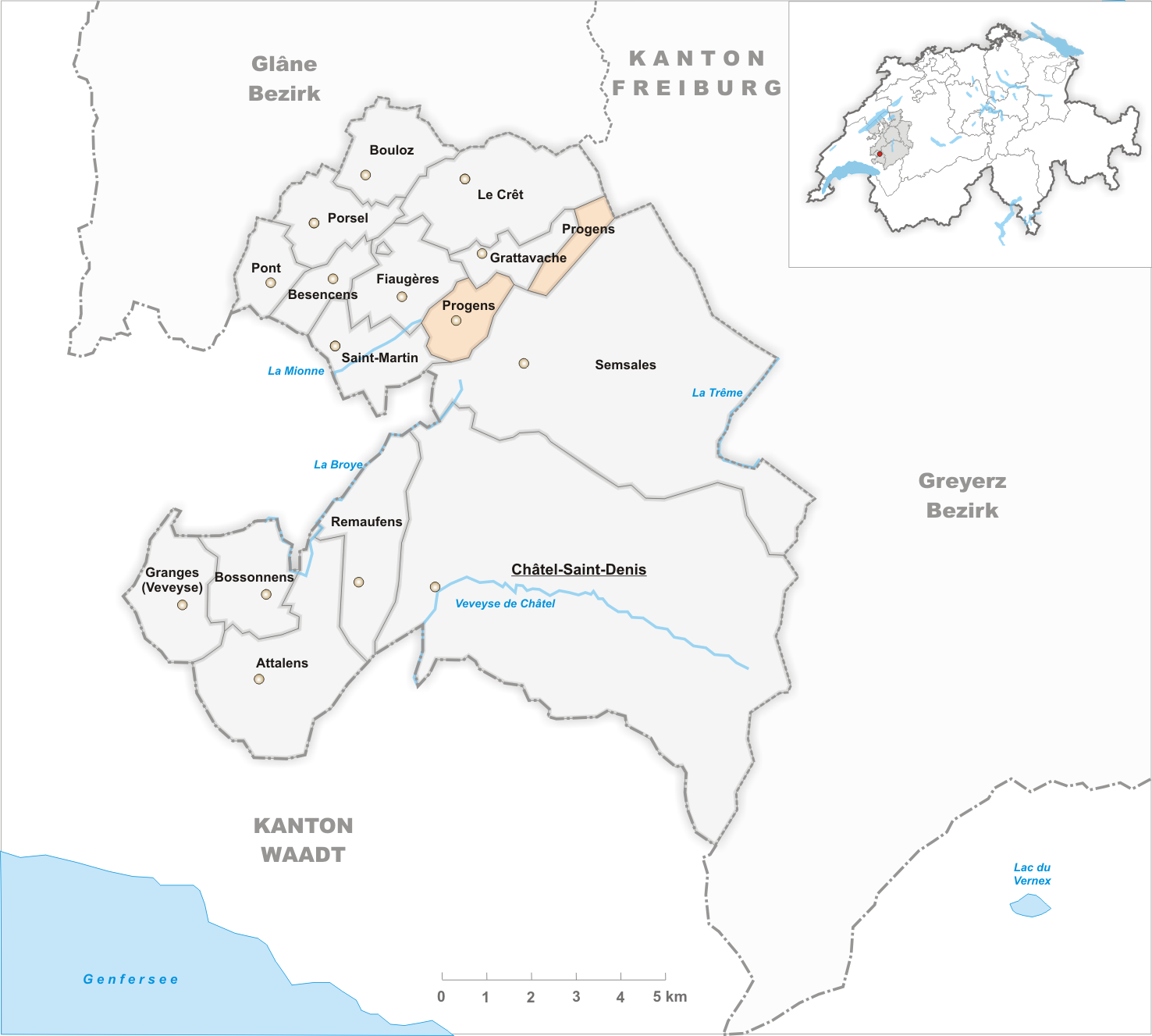 Municipality Progens Artist: Tschubby